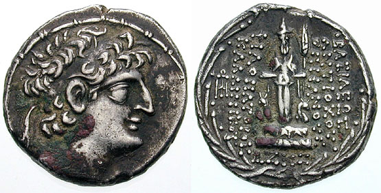 SYRIA, Seleukid Kings. Antiochos XII. 87/6-84 BC. AR Tetradrachm (15.85 gm). Year 227 (86/85 BC). Damascus mint. Diademed head right / BASILEWS ANTIOCOU EPIFANOUS right, FILOPATOROS KALLINIKOU left, cult statue of Hadad standing facing on double basis, flanked by two bull foreparts, holding grain stalk in right hand; monogram outer left, monogram and SKC in exergue; all within a laurel wreath. SNG Spaer -; Houghton & Spaer, New Silver Coins of Demetrios III and Antiochos XII at Damascus," in Schweizer Münzblätter 157 (Februry 1990), pg. 4, 5 (A5/P5 - this coin); Houghton, CSE, 864 var. Toned, good VF, original hoard patina around devices. Extremely rare.